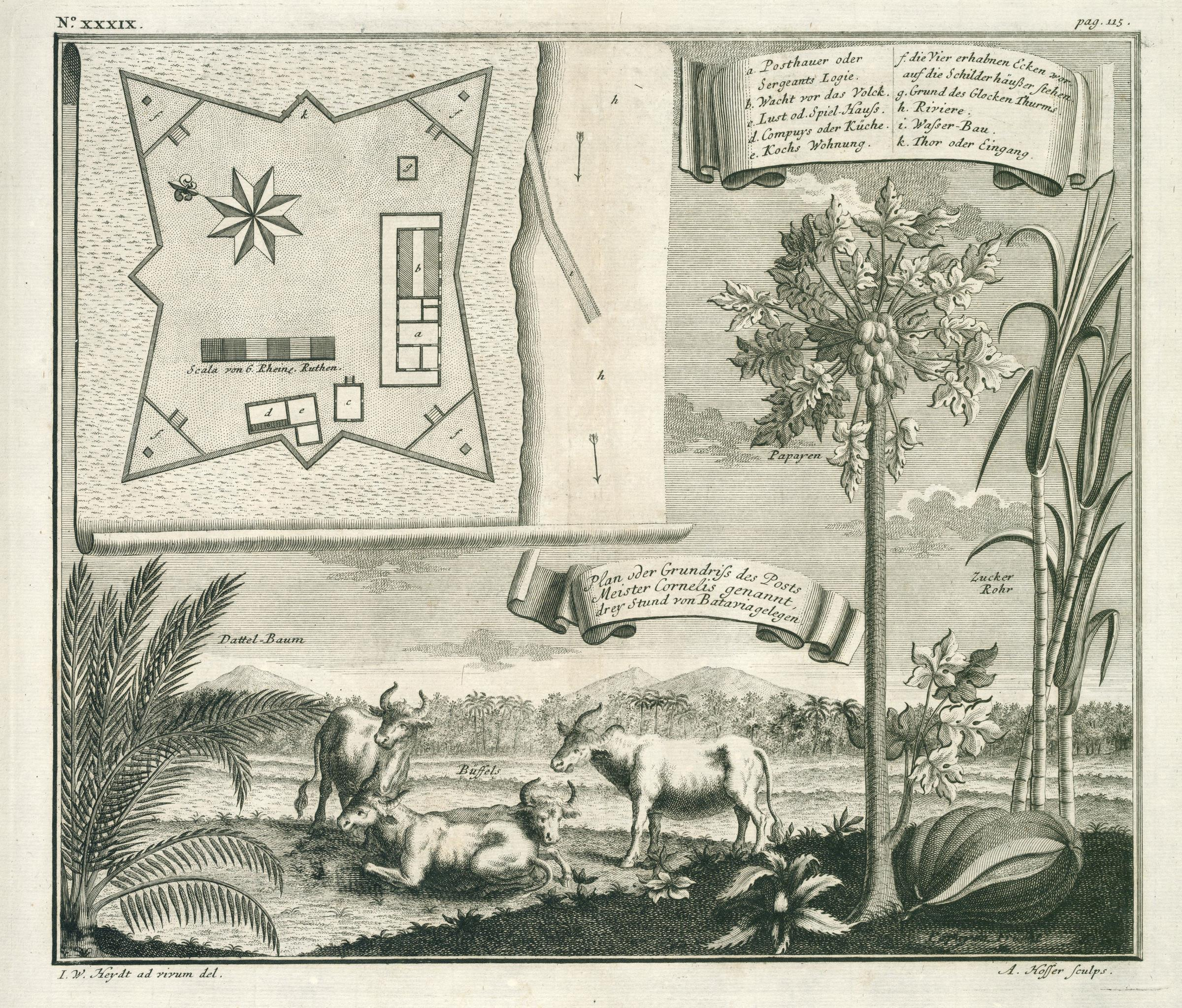 Map of the Meester Cornelis trading post. Plan oder Grundriss des Posts Meister Cornelis genannt, drey Stund von Batavia gelegen. Top left: No: XXXIX. Top right: pag. 115.. Key: a. Posthauer oder Sergeants Logie. / b. Wacht vor das Volck. / c. Lust od. Spiel-Hauss. / d. Compuys oder Küche. / Kochs Wohnung. / f. die Vier erhabnen Ecken worauf die Schilder häußer stehen. / g. Grund des Glocken Thurms. / h. Riviere. / i. Wasser-Bau. / k. Thor oder Eingang. The plants pictured are labelled by name.